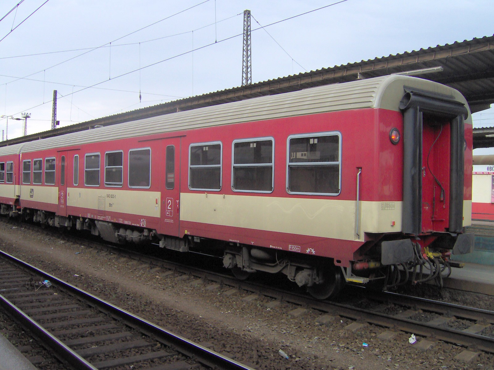 Railway coach 043.023, Olomouc main station, Czech Republic